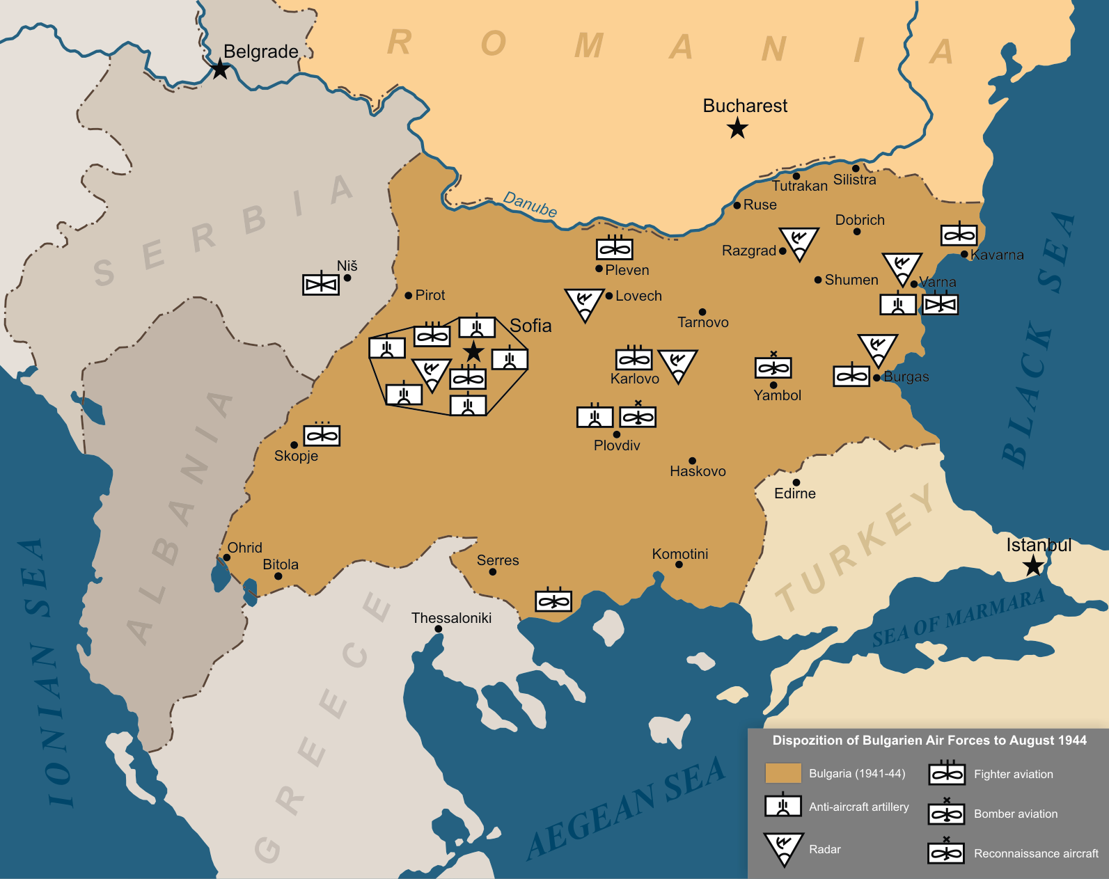 Dispozition of Bulgarien Air Forces to August 1944.